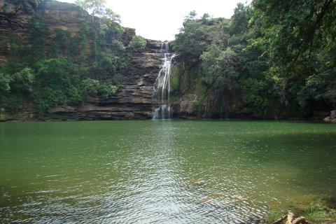 Waterfall at Taxakeshwar temple in Mandsaur district, Madhya Pradesh, India